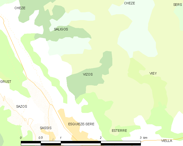 Map of French municipality